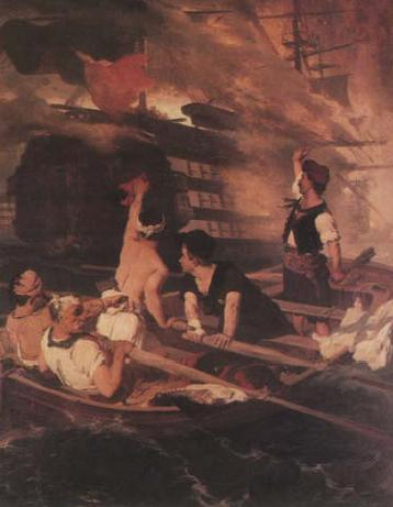 Greeks under fire-ship captain Constantine Kanaris, setting afire the Ottoman flagship at Chios (1822)